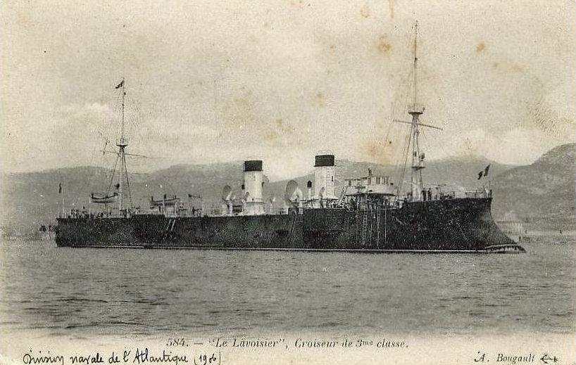 French cruiser Lavoisier